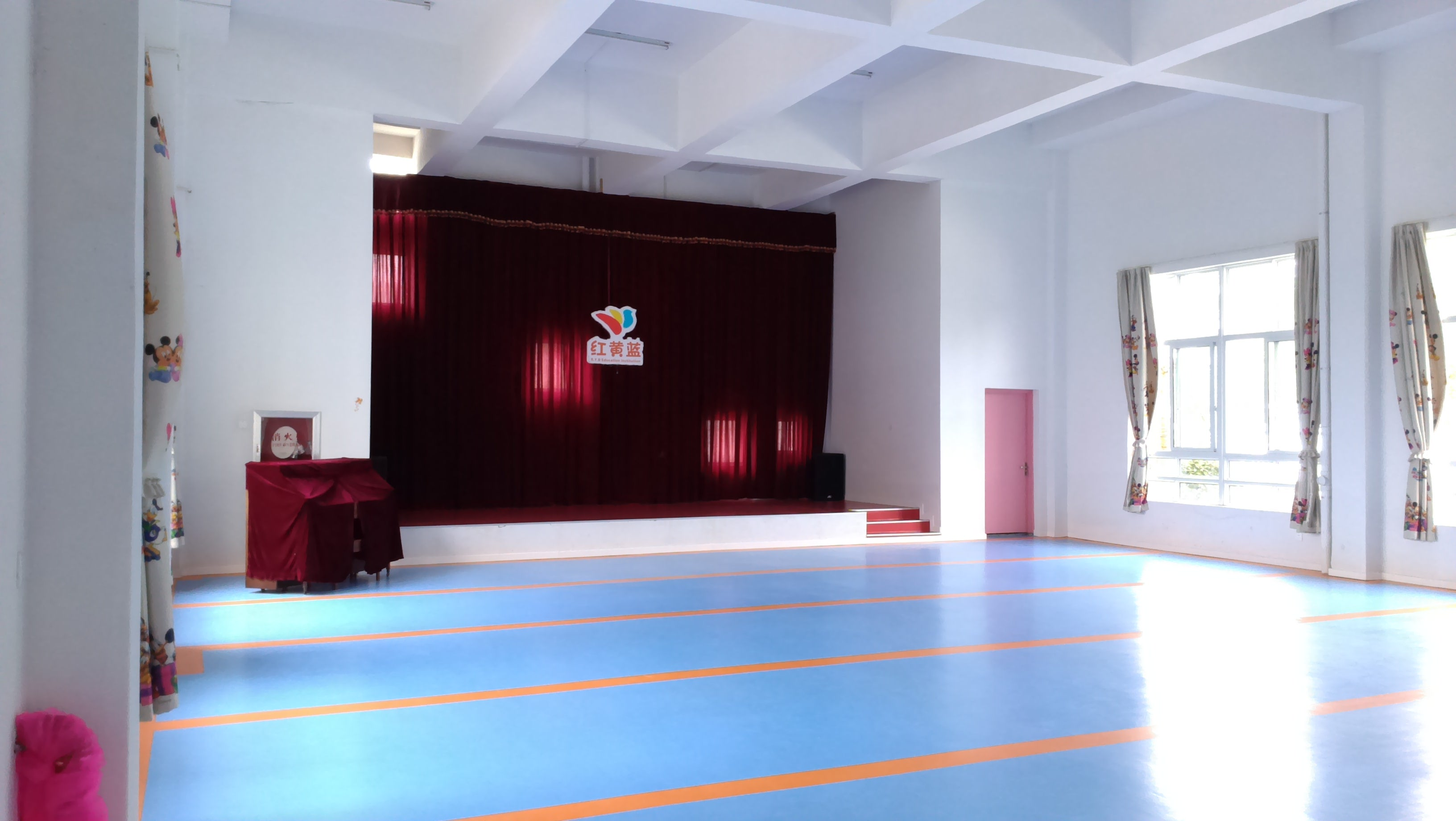 RYB Kindergarten in Pinghu, China